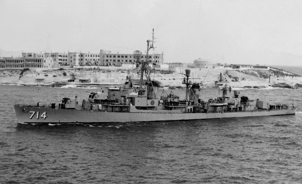 The U.S. Navy radar picket destroyer USS William R. Rush (DDR-714) entering Marsamxett, Malta, in April 1961.